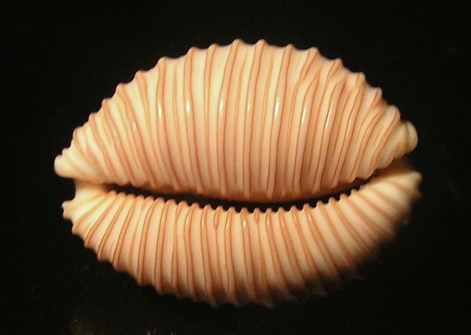 Nucleolaria granulata Pease 1862 , a sea snail from the family Cypraeidae; Hawaii